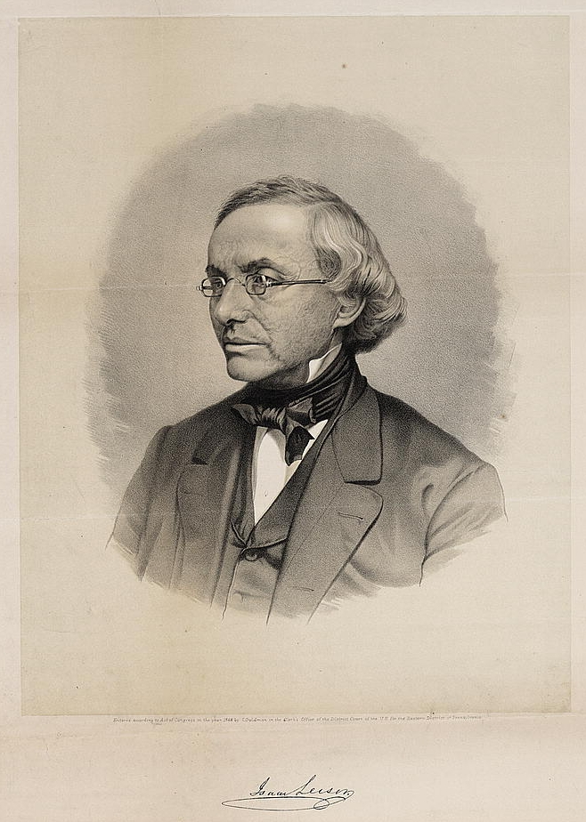 German-born American rabbi Isaac Leeser (1806-1868)